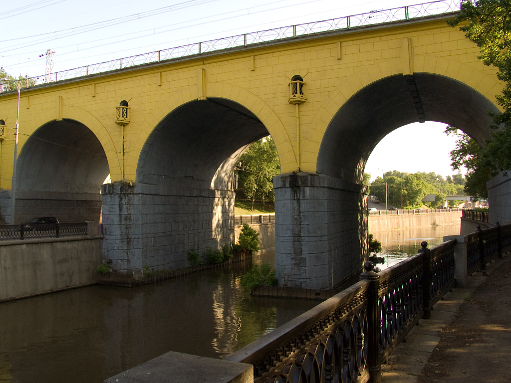 Bridge over Yauza River in Moscow